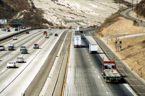 Truck-only lanes on Interstate 5 to bypass the interchange with State Route 14 in Southern California.